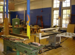 Woodshop - This is where students learn to construct objects.